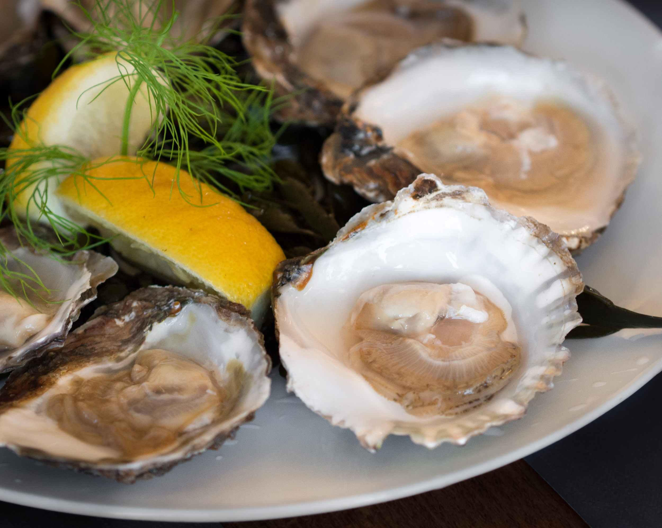 The Ostrea edulis is known in Zeeland, Netherlands, as the "platte Zeeuwse oester" (lit. "flat Zeeland oyster"). The oysters in this image were served at a restaurant in Yerseke, Zeeland.